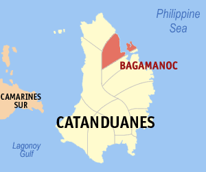 Map of Catanduanes showing the location of Bagamanoc